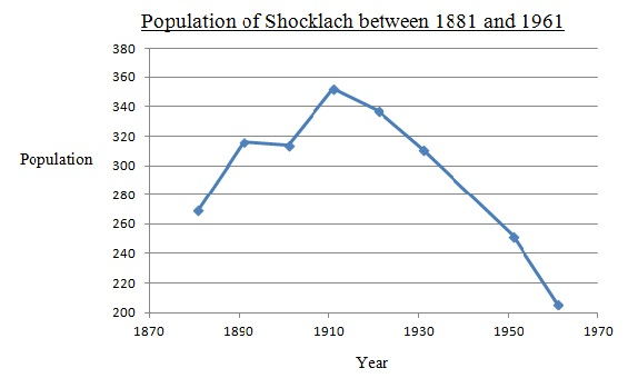 The graph shows the population change between 1881 and 1961 in Shocklach